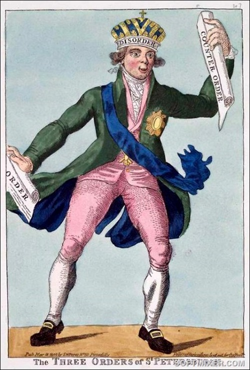 Cartoon depicting the social disorder of St Petersburg during the reign of Paul I of Russia (1796-1801)